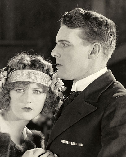 Forrest Stanly and Marion Davies in a detail from The Young Diana (1922).